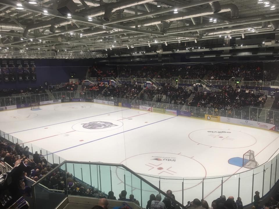 Braehead Arena prior to the star of an Ice Hockey match.